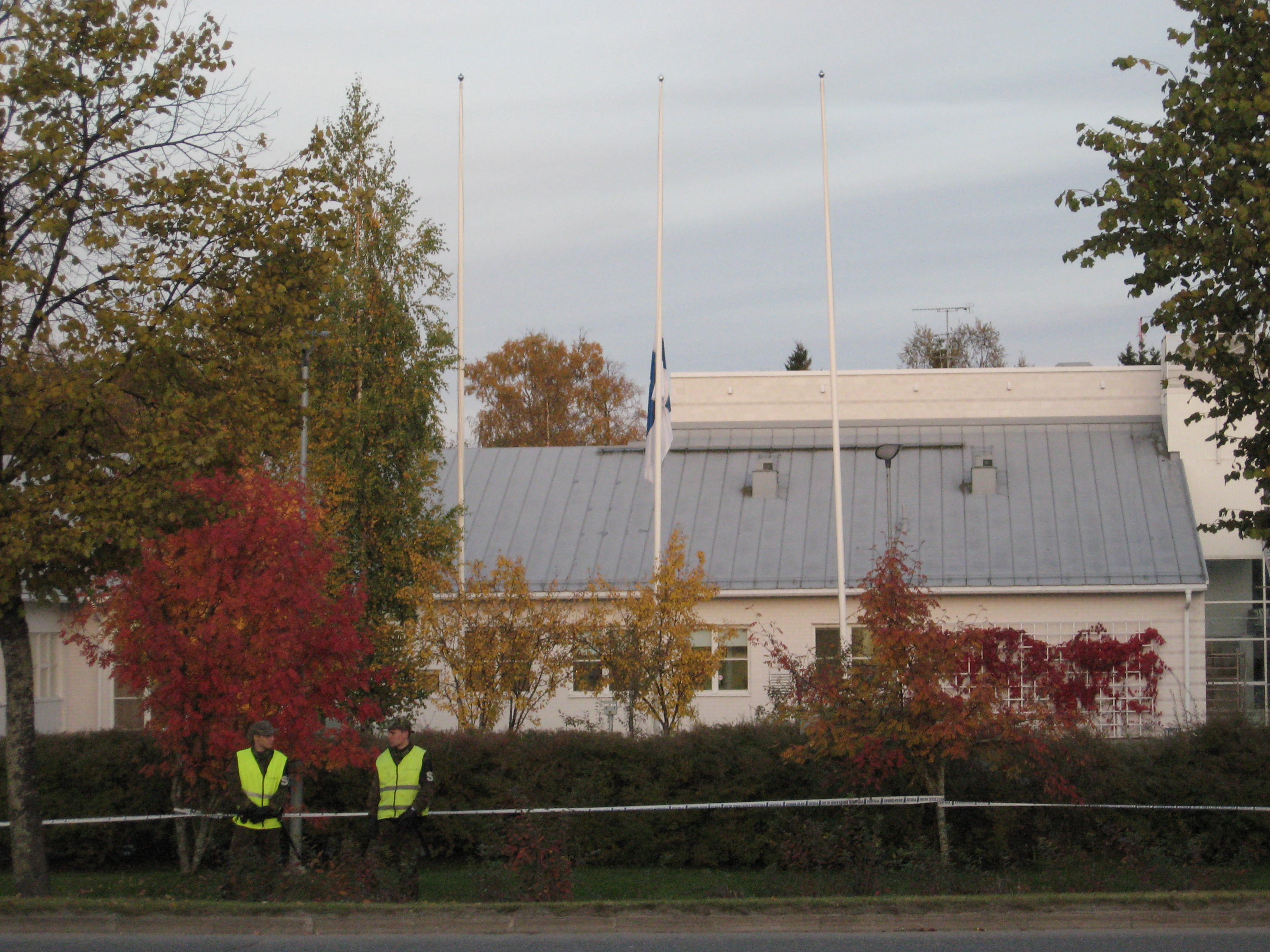 Flag of Finland in front of Kauhajoen koti- ja laitostalousoppilaitos (in Kauhajoki, Finland) one day after shooting incident.